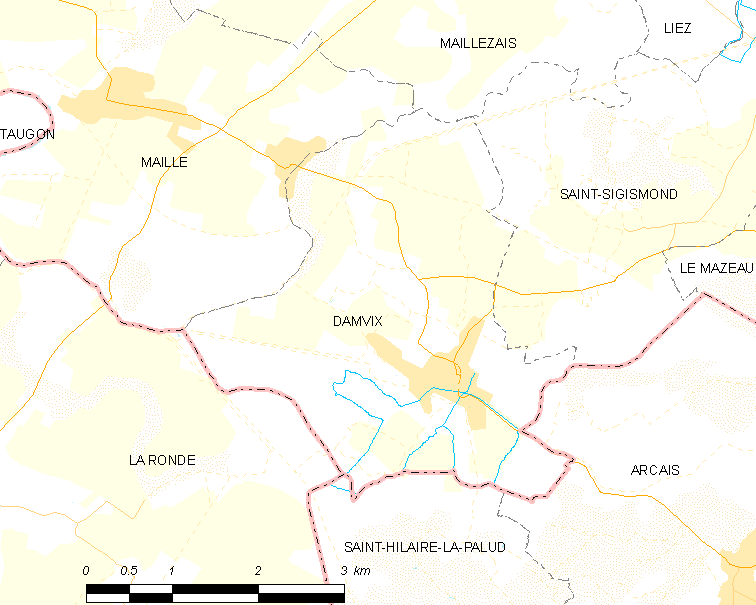 Map of French municipality Damvix